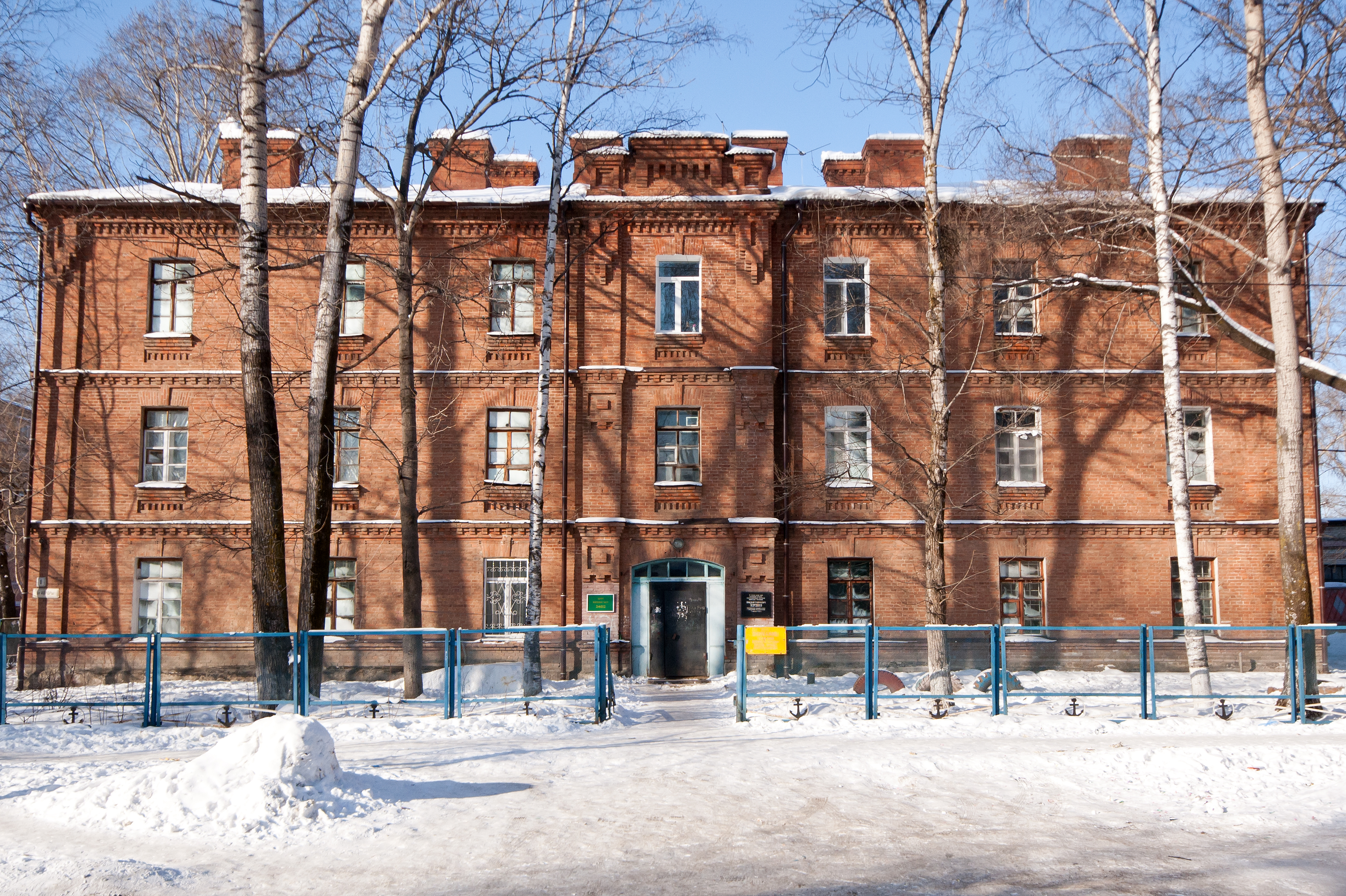 Now it is a dormitory of Russian Border Forces.